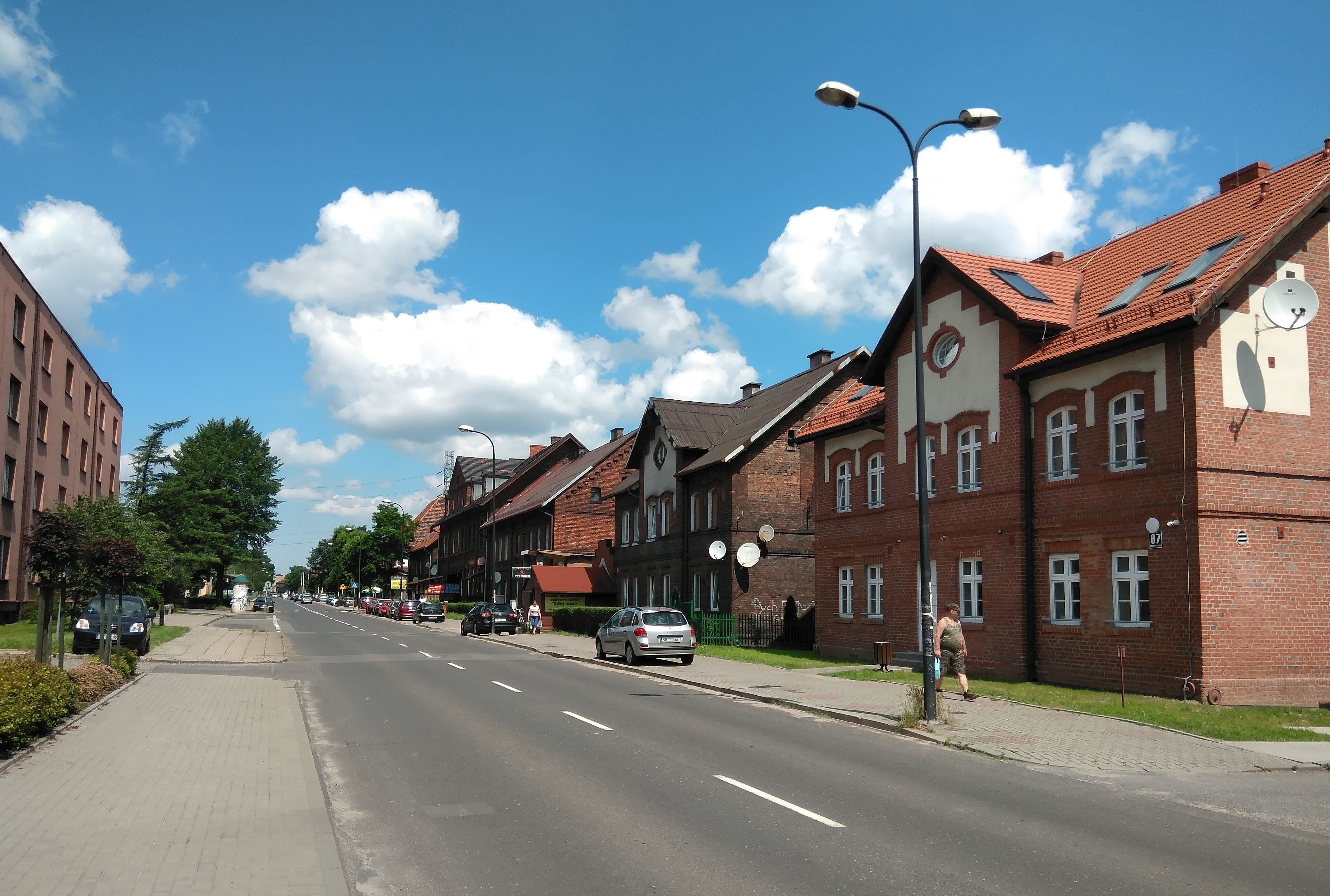 Emma (Marcel) workers' district in Radlin-Biertułtowy, Upper Silesia